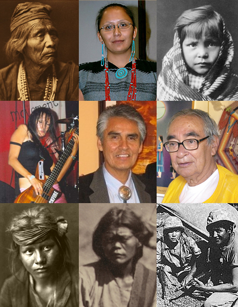 Navajo collage from various public domain sources